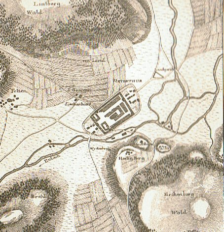 Winterthur around 1292 in a map of the «Feuerwerker-Gesellschaft Zürich» of 1814